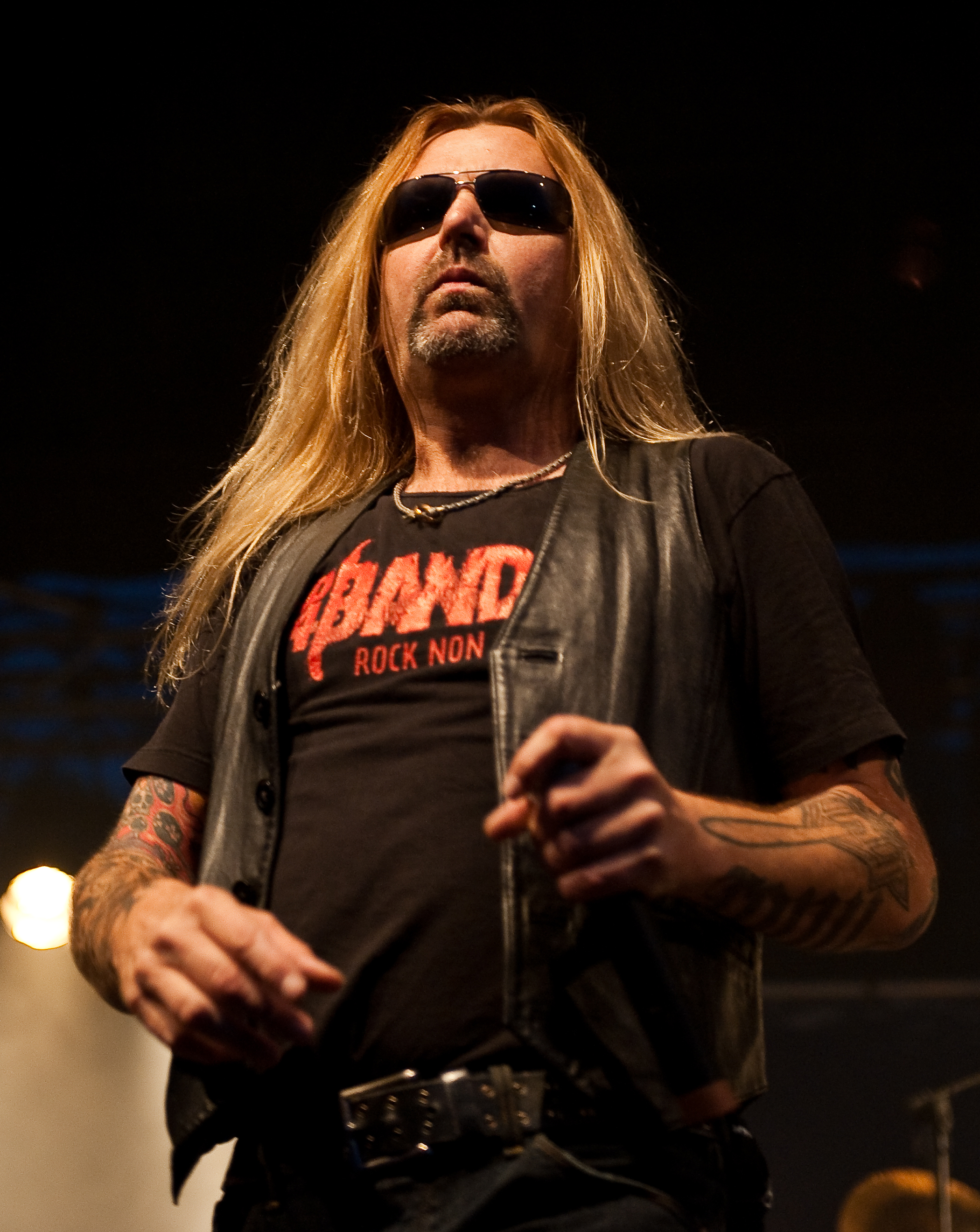 Vocalist Tony Mills